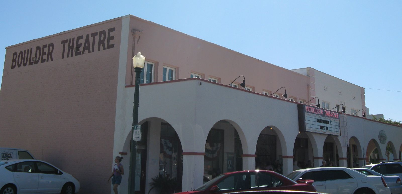 Boulder Theatre in Boulder City, Nevada.